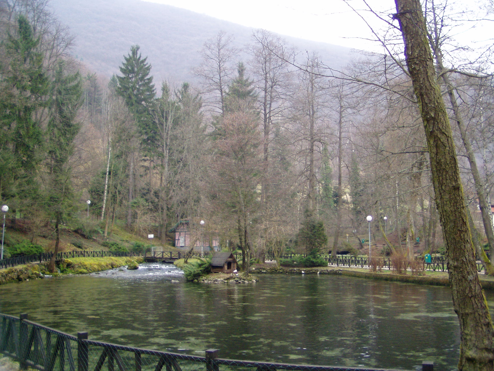 Vrelo Bosne in 2007 February